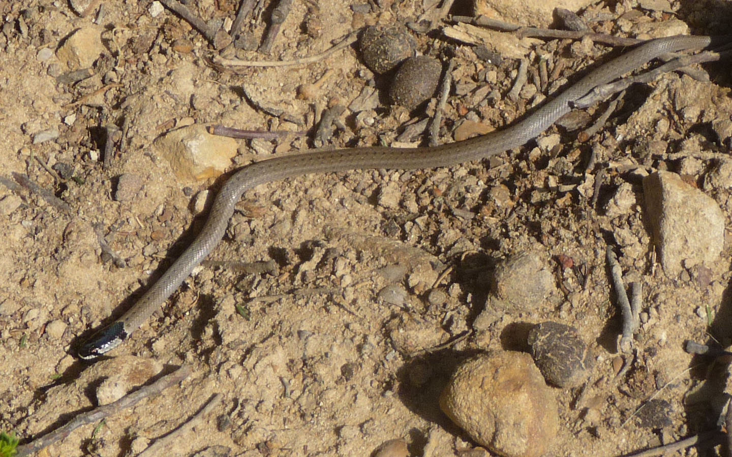 Hooded Snake (Macroprotodon cucullatus)